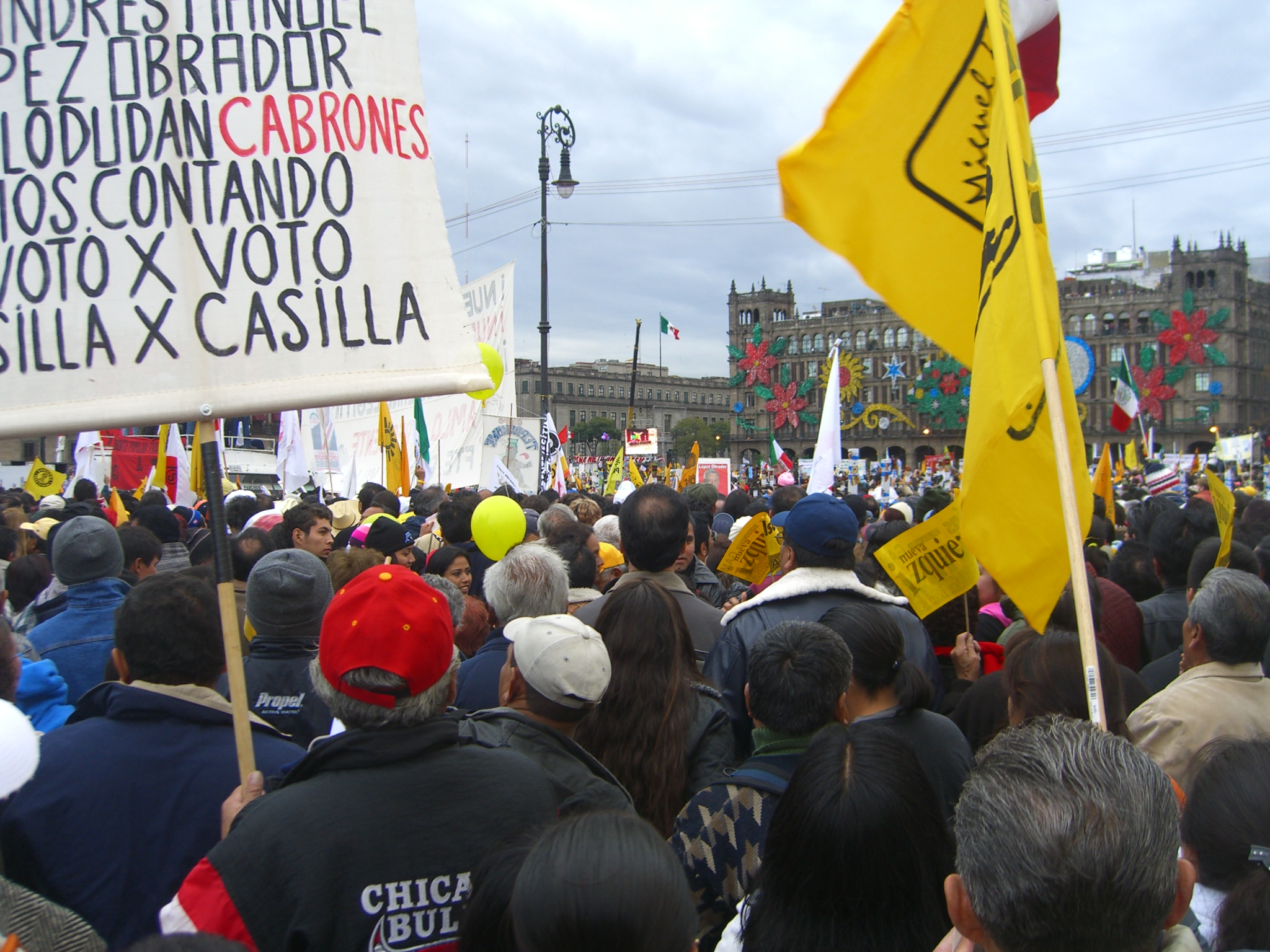 Demonstration in the Zócalo of Mexico City during the investiture of Andrés Manuel López Obrador as the "Legitimate President" of Mexico.